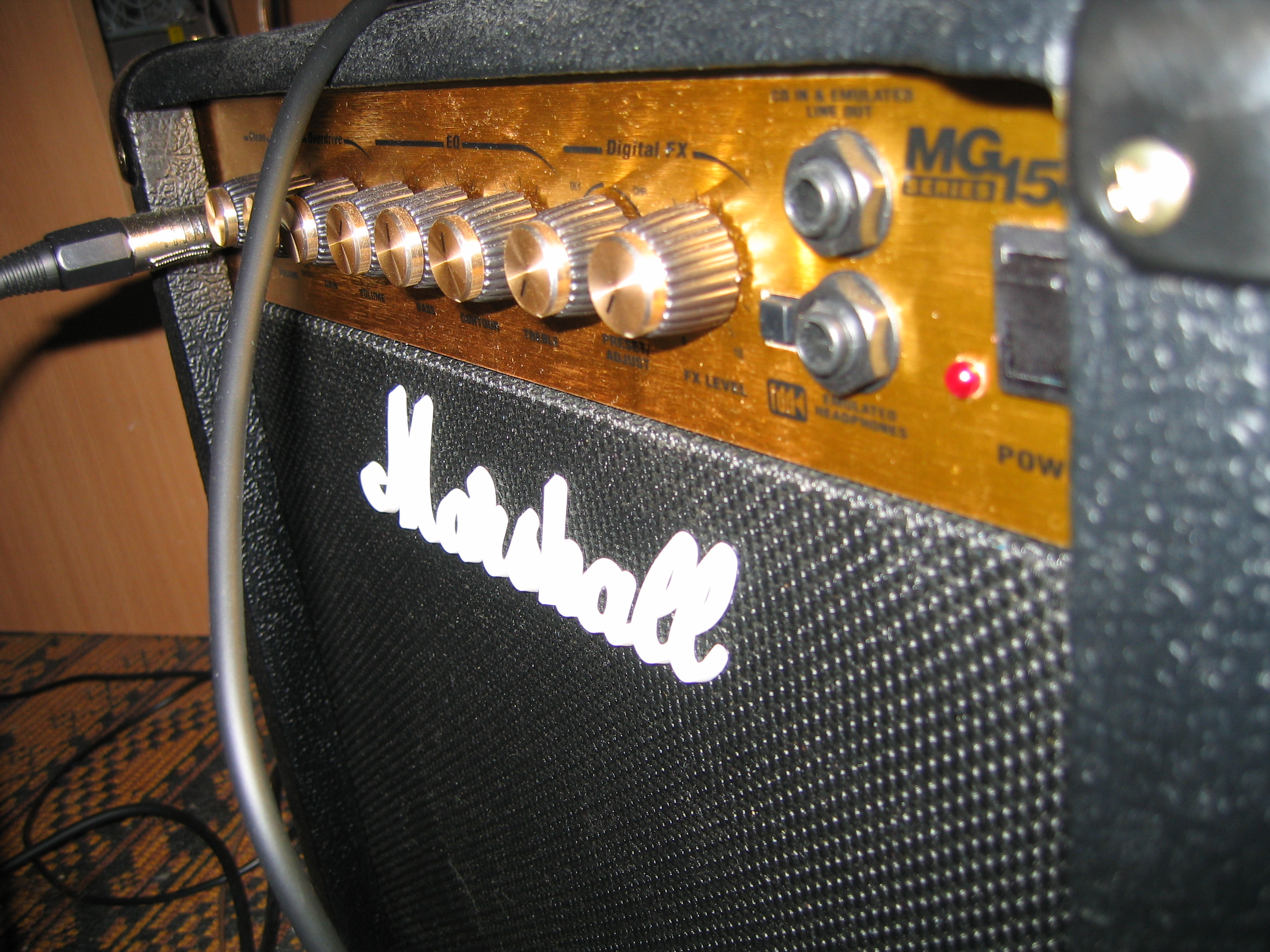 An amplifier by Marshall Amplification, MG15DFX.